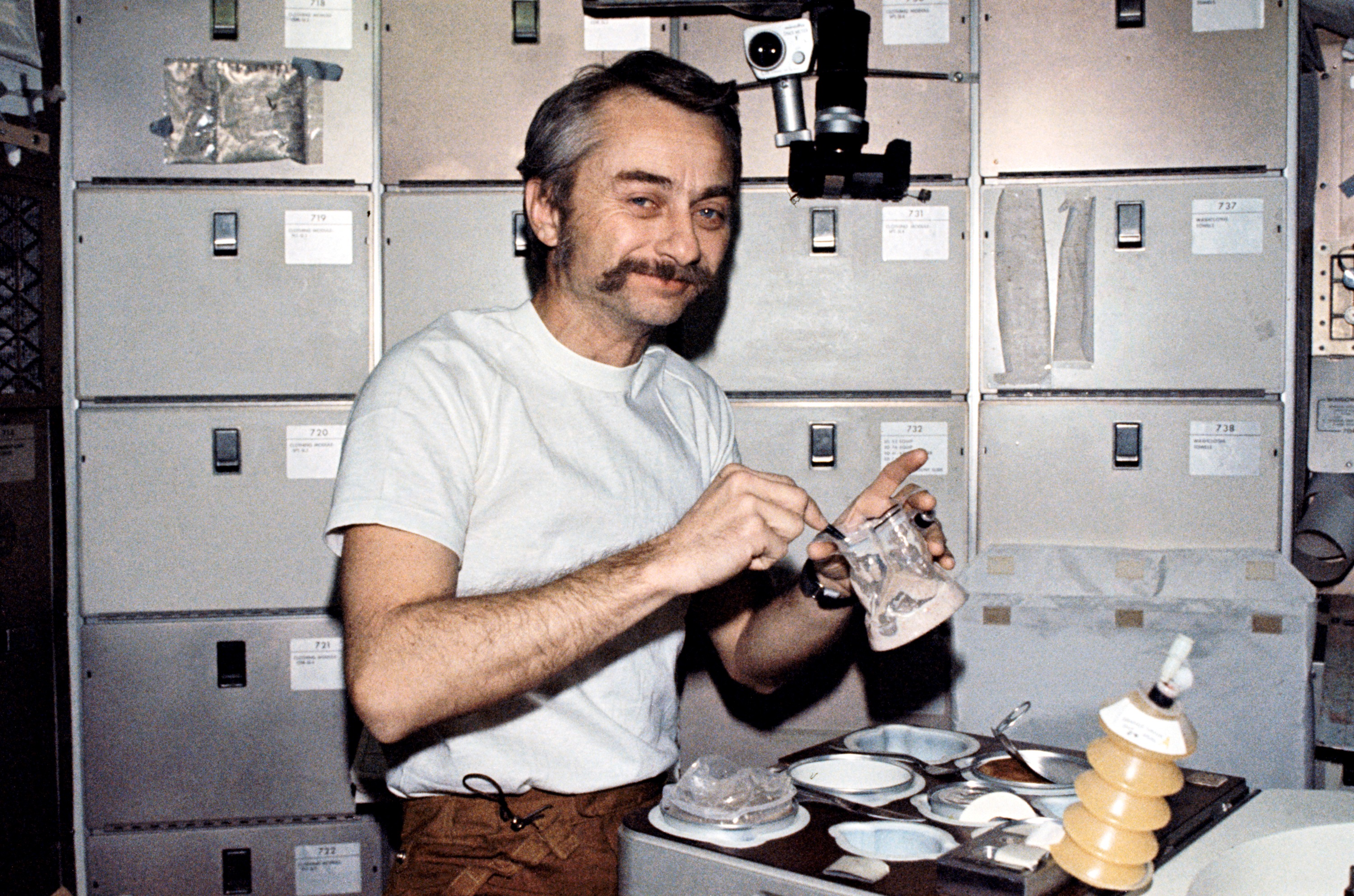 This photograph was taken during the Skylab-3 mission (2nd manned mission), showing Astronaut Owen Garriott enjoying his meal in the Orbital Workshop crew wardroom. The tray contained heating elements for preparing the individual food packets. The food on Skylab was a great improvement over that on earlier spaceflights. It was no longer necessary to squeeze liquified food from plastic tubes. Skylab's kitchen was so equipped that each crewman could select his own menu and prepare it to his own taste.